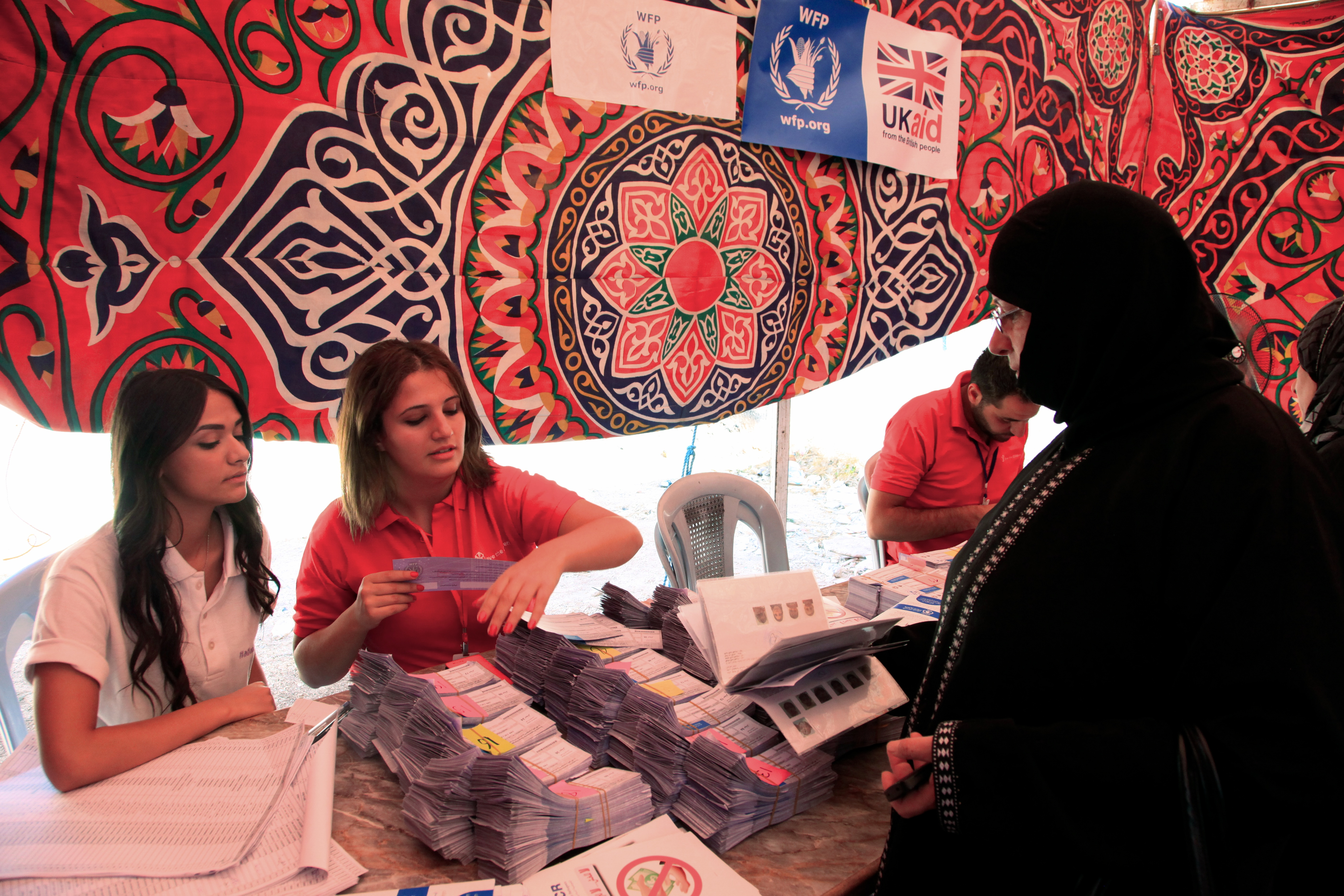 UK-funded food vouchers (worth £15 per person per month) are distributed to Syrian refugees in Amman, Jordan, through the World Food Programme. Over 500,000 Syrian refugees are staying in urban host communities in Jordan - not in refugee camps. But they're not allowed to work, so many are reliant on humanitarian support to cover even basic essentials such as food. The vouchers can be exchanged at local shops. Half of the refugees from Syria are under 18 years of age. The UK is helping WFP to feed Syrian children and their families right across the region. This will reach over 230,000 Syrian children in the region every month for six months. Find out more about UK support for the Syria humanitarian crisis Picture: Russell Watkins/Department for International Development